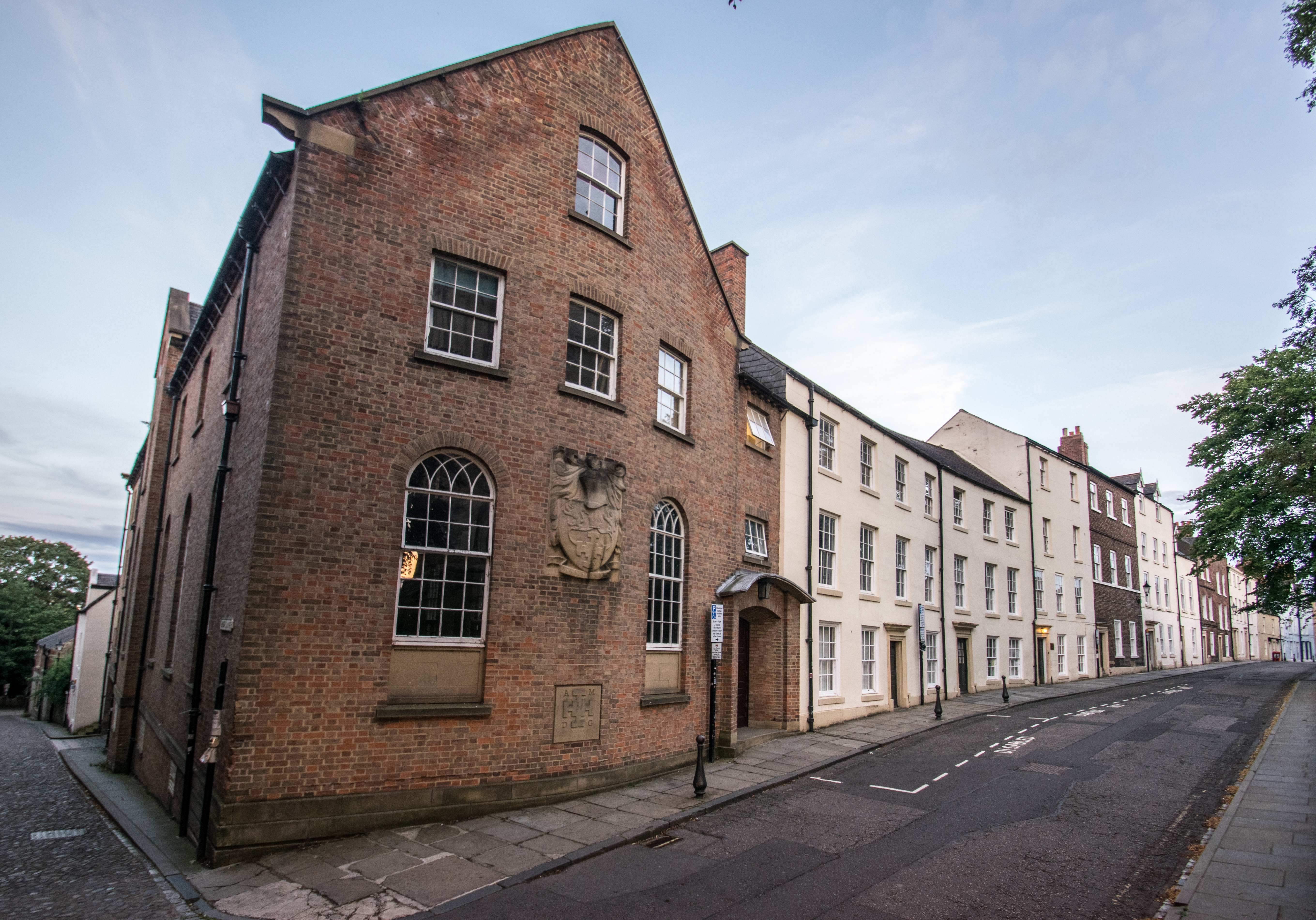 The buildings comprising Main College at St Chad's College, Durham. In the foreground is Francis Johnson's 1961 dining hall block; beyond that, the mainly 18th-century houses that make up the main college buildings.